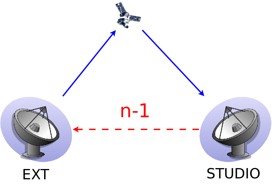 Mix minus (n-1) feeding to a remote OB van.